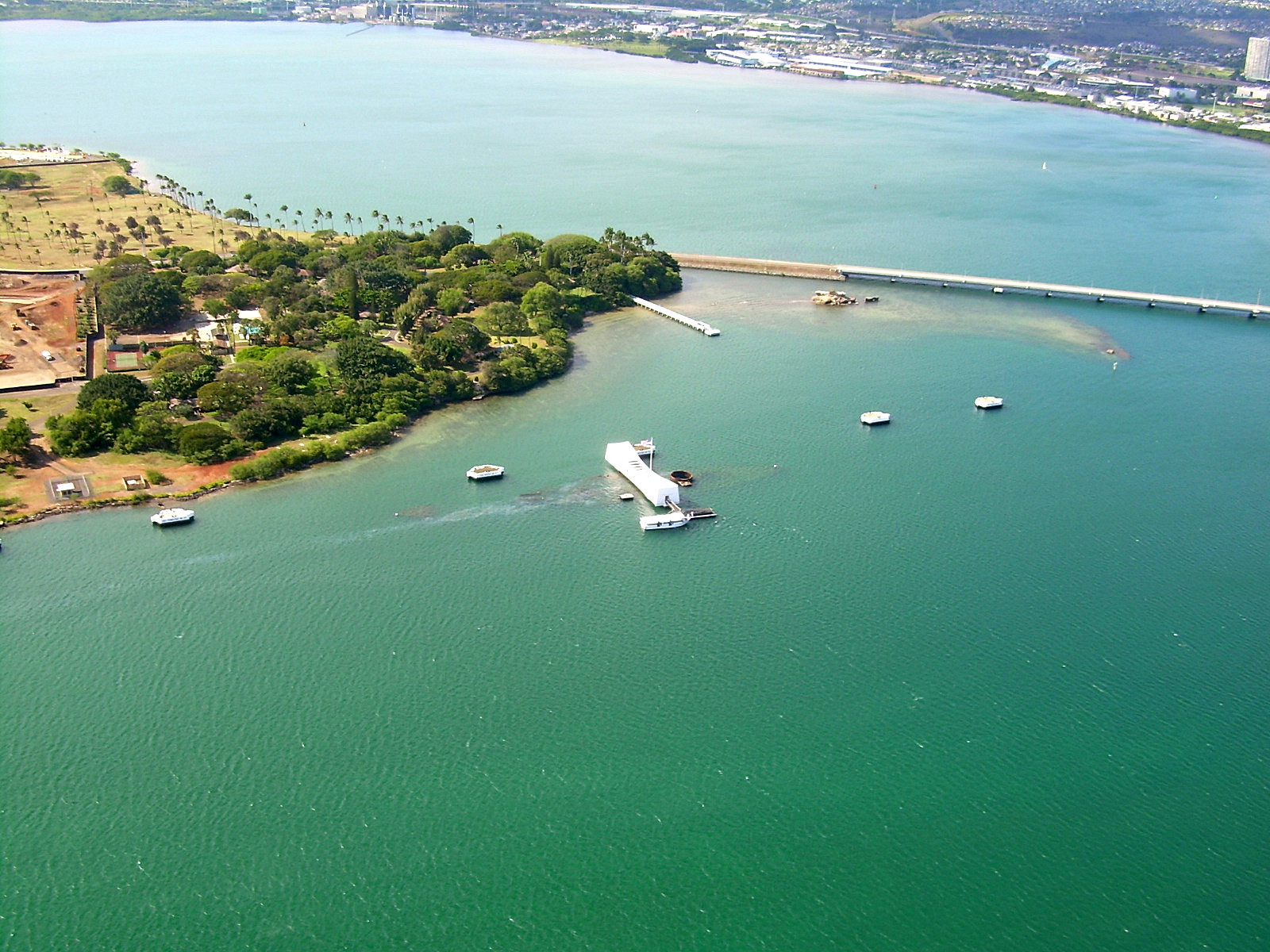 USS Arizona memorial in Pearl Harbor, notice the oil slick or "black tears" trailing in the current.